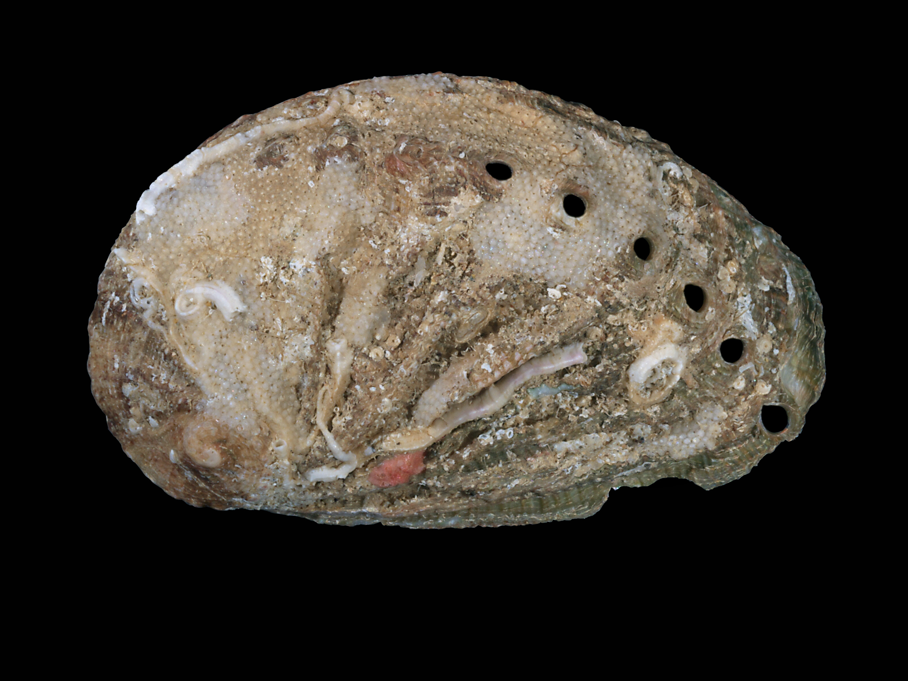 From the south coast of Crete.